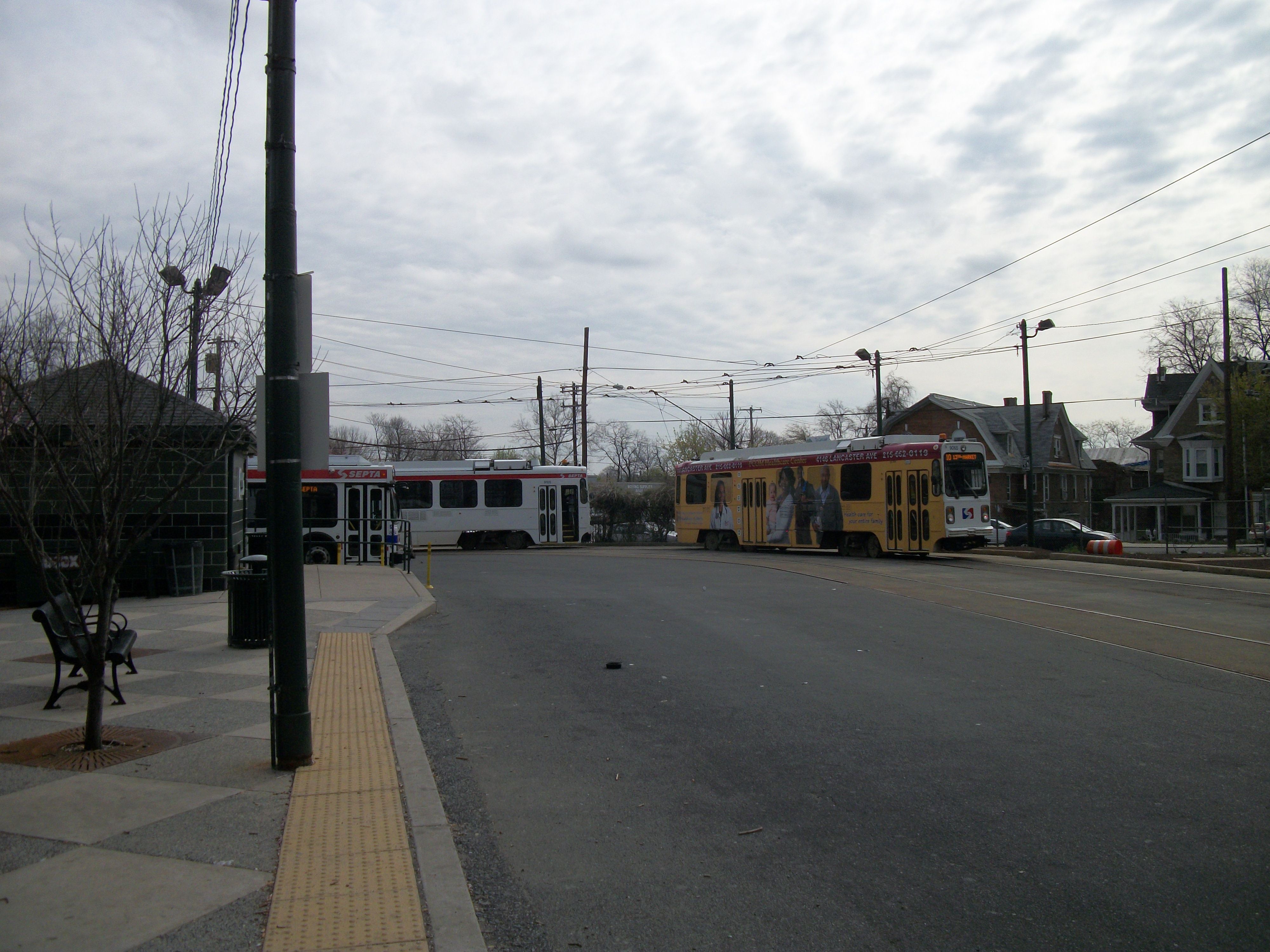 A pair of SEPTA Route 10 trolleys make a U-Turn at the 63rd & Malvern Loop(formerly the Overbrook Loop) in the Overbrook section of West Philadelphia, Pennsylvania. This loop is actually east of 63rd Street, and is on the corner of US 30, where it cuts off and reroutes part of 62nd Street.